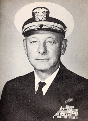 Official Navy portrait of Rear Admiral Edward C. Outlaw circa 1965